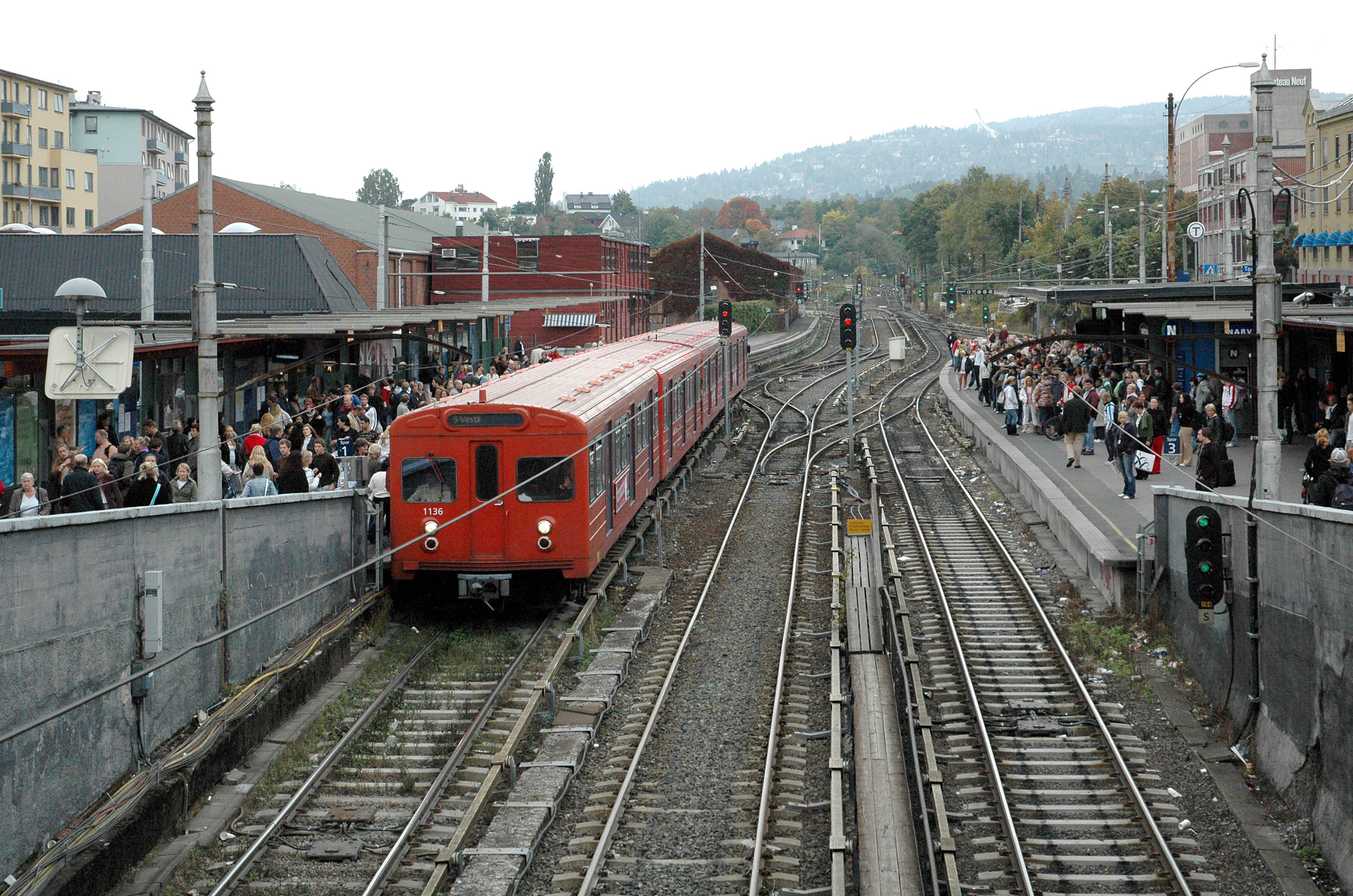 T1000-train at Majorstua metro station, Oslo, Norway. Holmenkollen ski jump at the hill in the back.